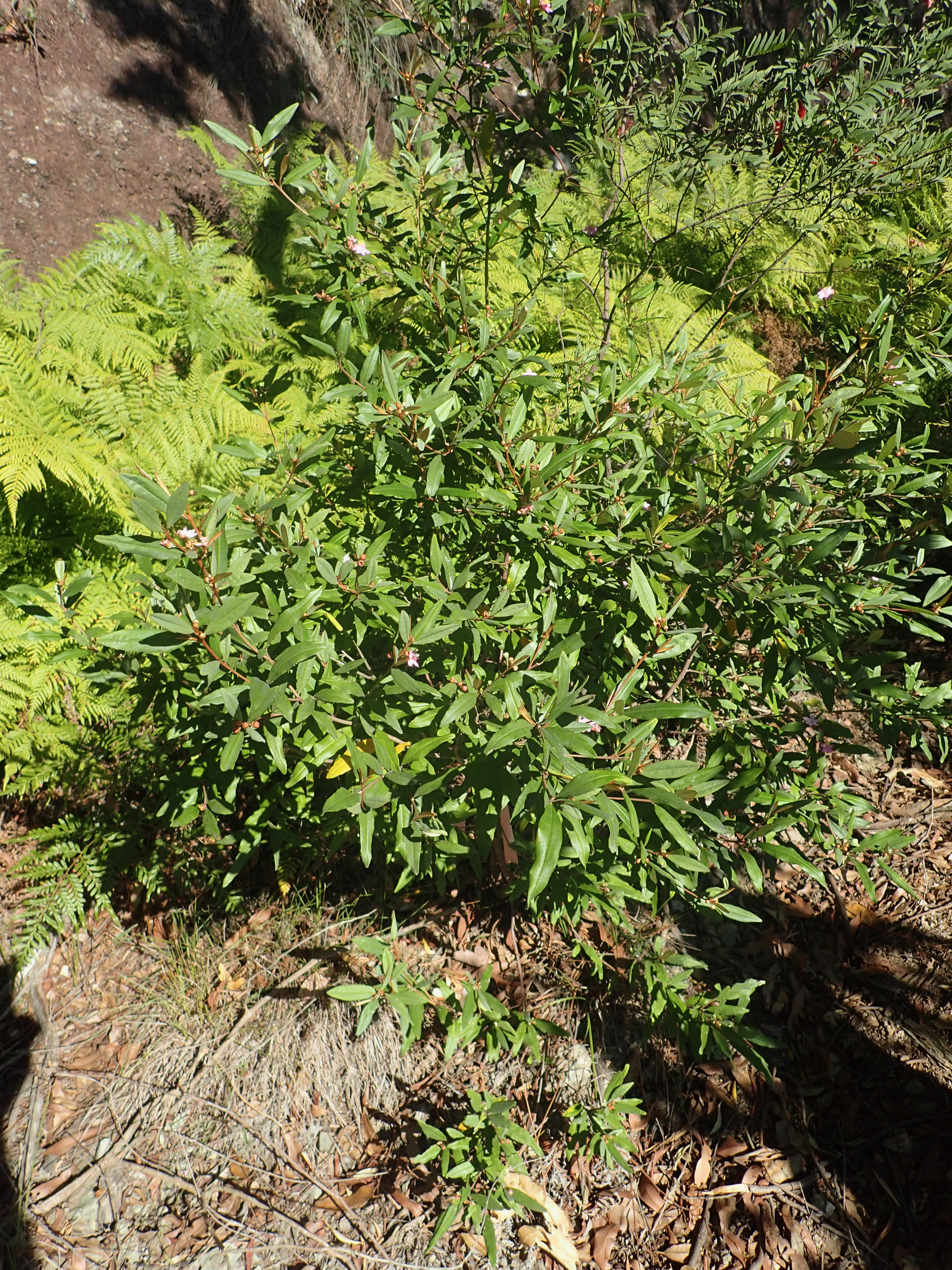 Phebalium speciosum near Urbenville